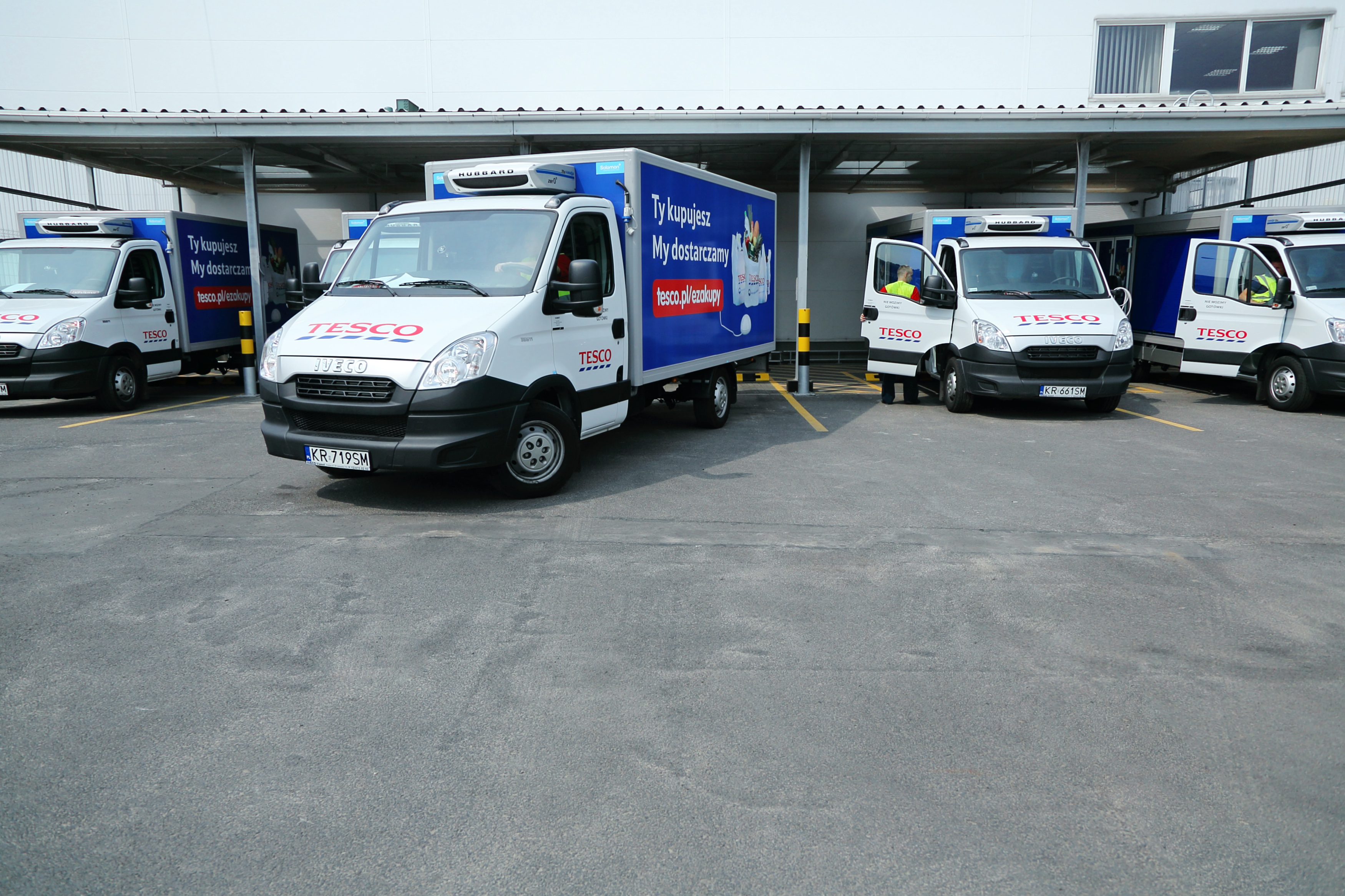 Ezakupy Tesco vans